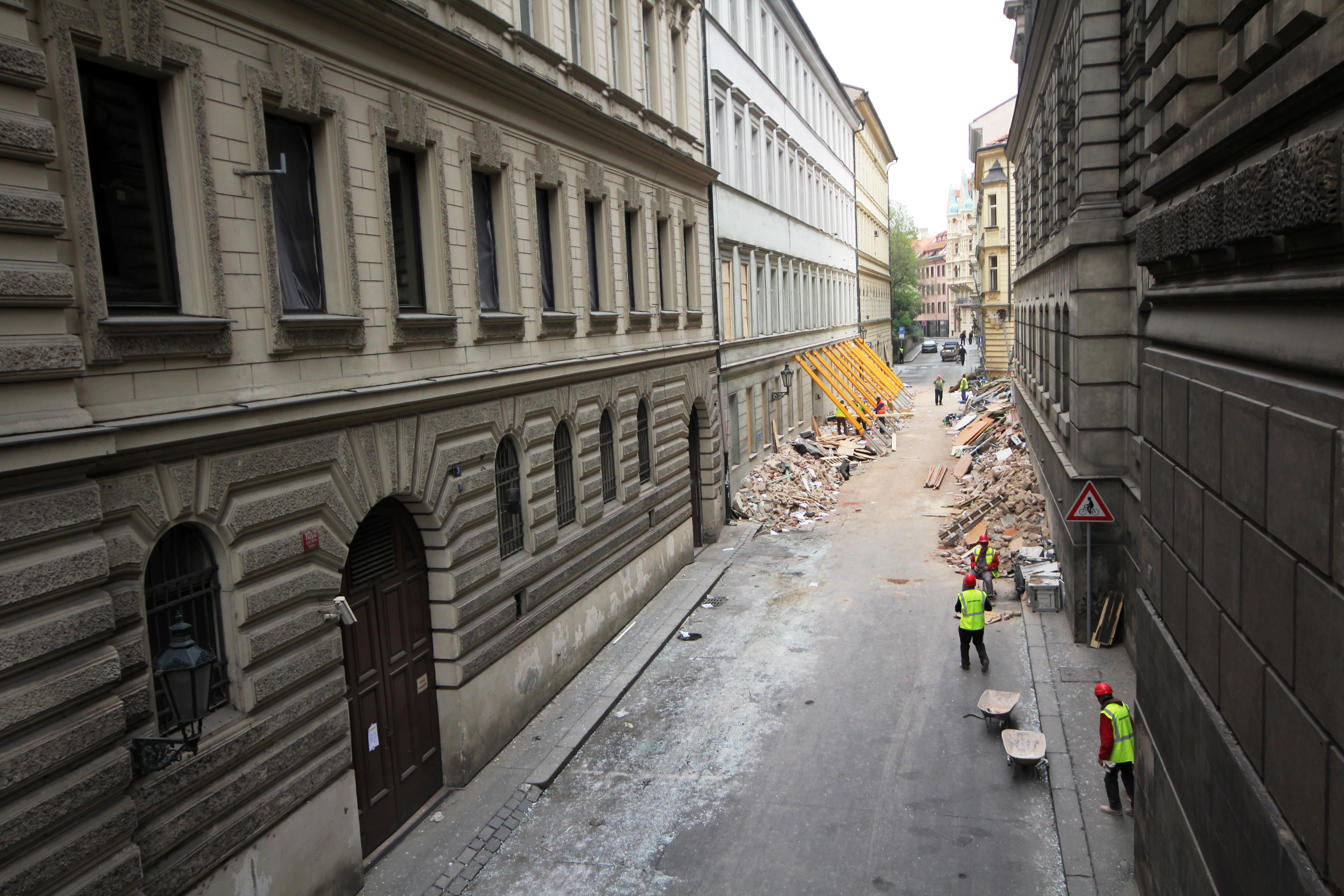 Situation in Divadelní Street Prague after gass explosion in April 29, 2013, Czech Republic.